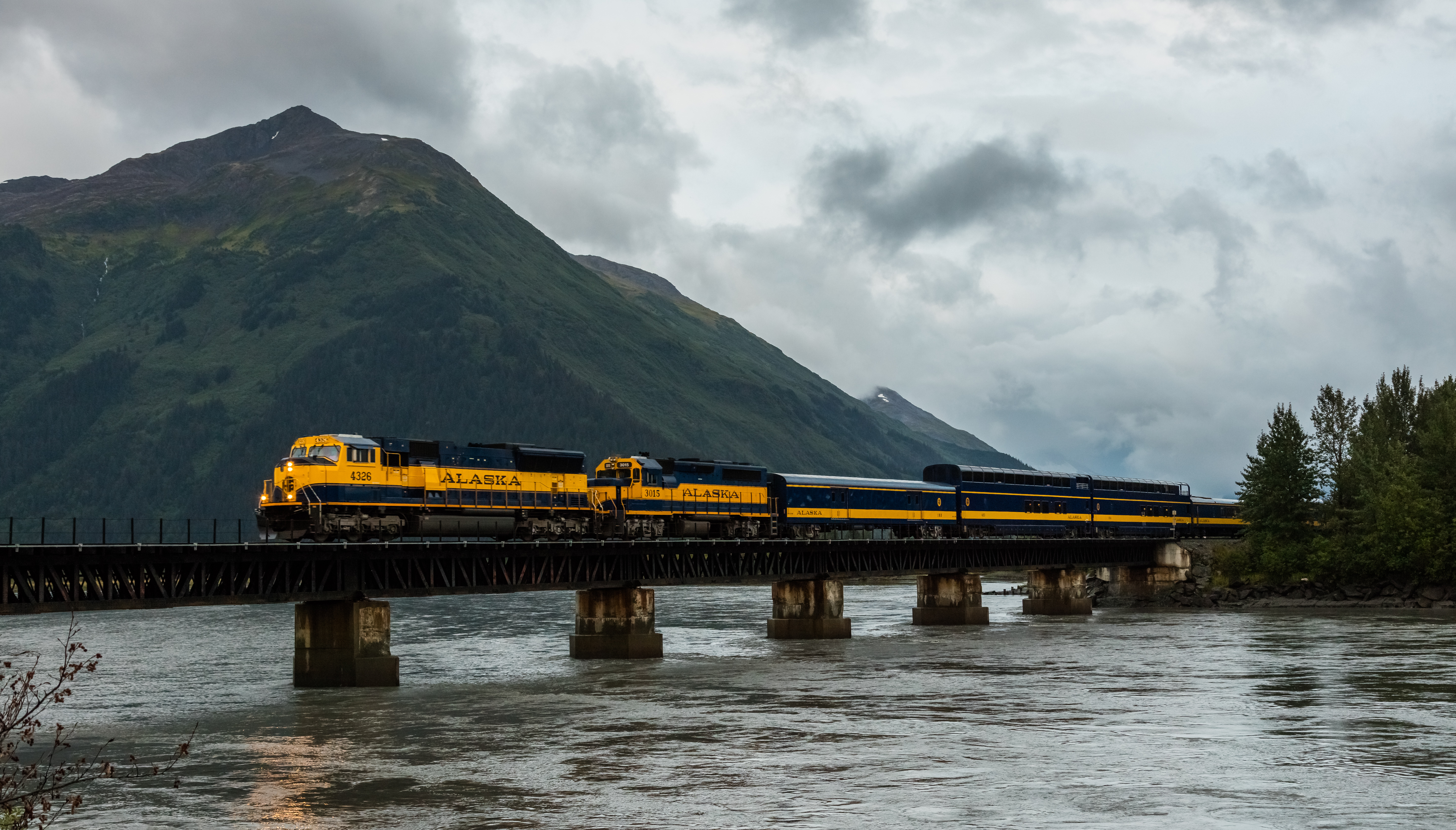 White Pass Railway, Girdwood, Alaska, USA